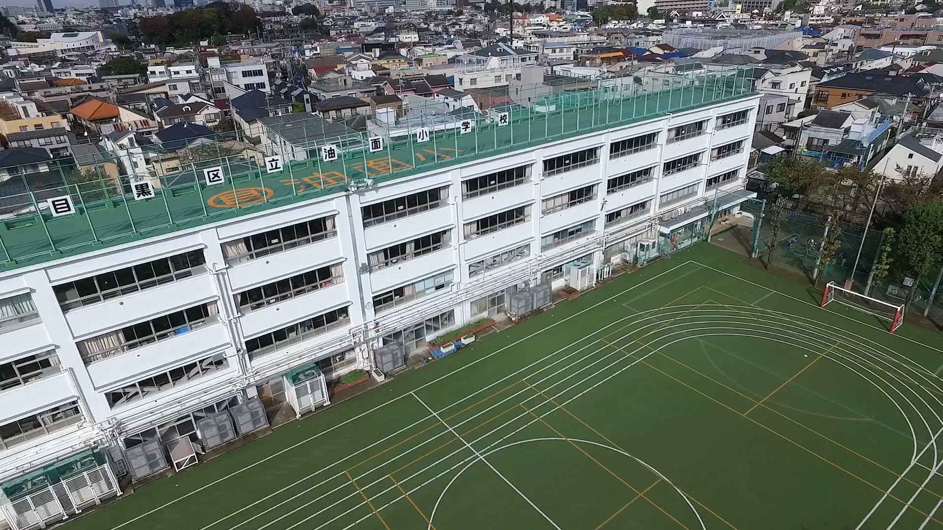 Aburamen elementary school